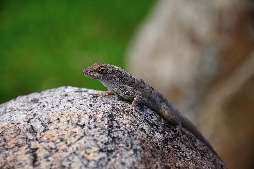 Anolis stratulus,puerto rico